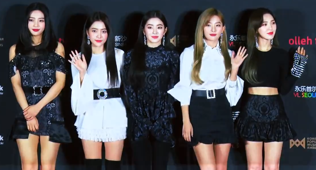 Red Velvet at Korea Popular Music Awards red carpet on December 20, 2018.